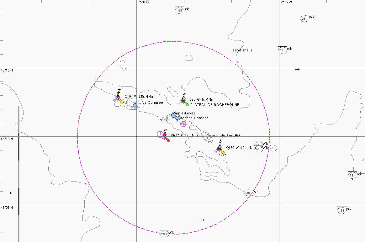 Plateau de Rochebonne nautical chart